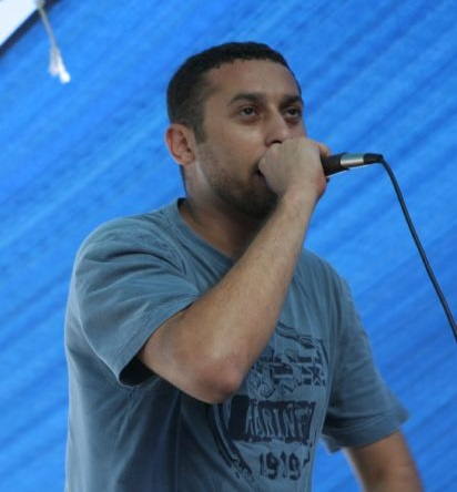 "Tamer Nafar, the lead singer of DAM, a rap group from the Palestinian-Israeli town of Ludd/Lod, performing at the 2007 Taybeh beer festival." - Flickr